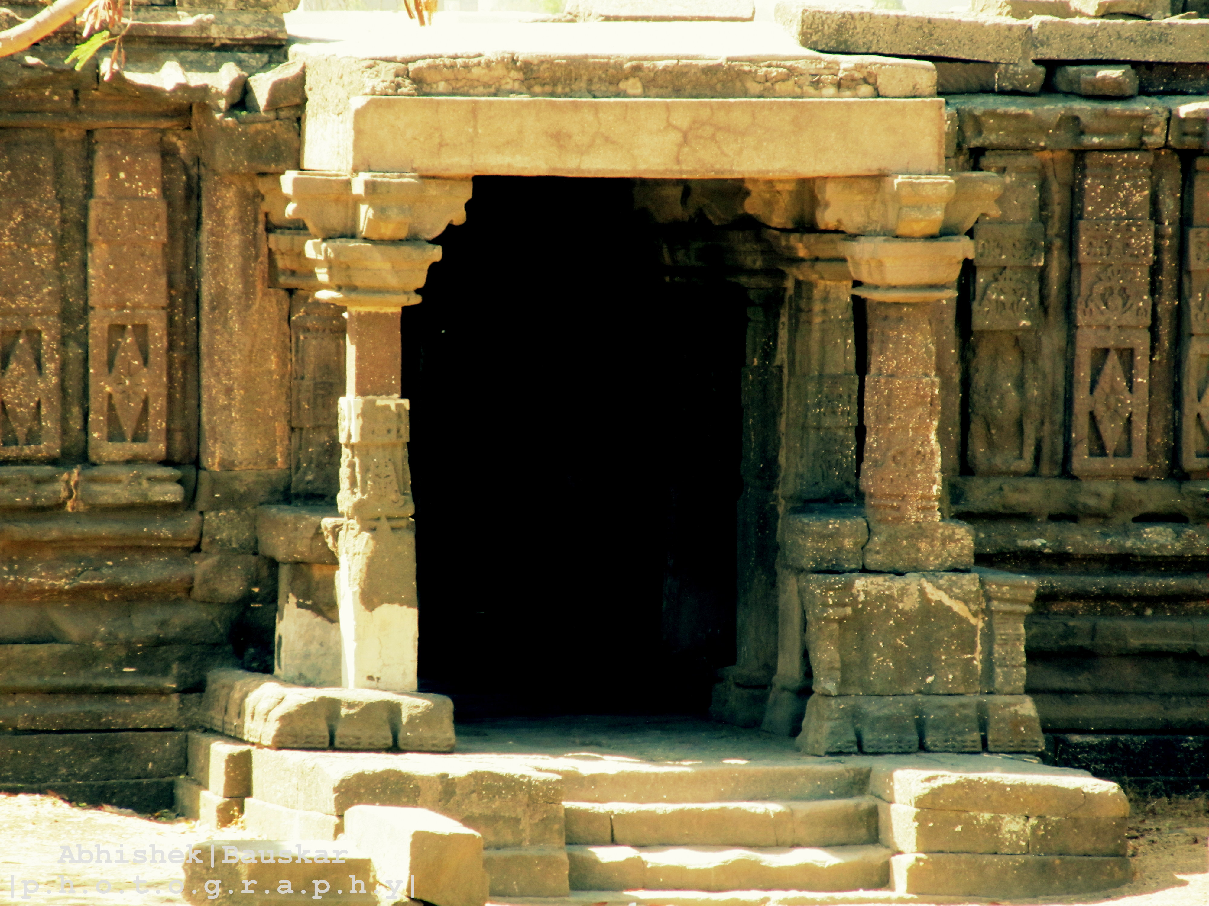 This is the 2000 years old temple at Sinnar near Nasik, Maharashtra, India...not 'built' but 'carved' in a single stone in the era of Govinddevrai Yadav...!!